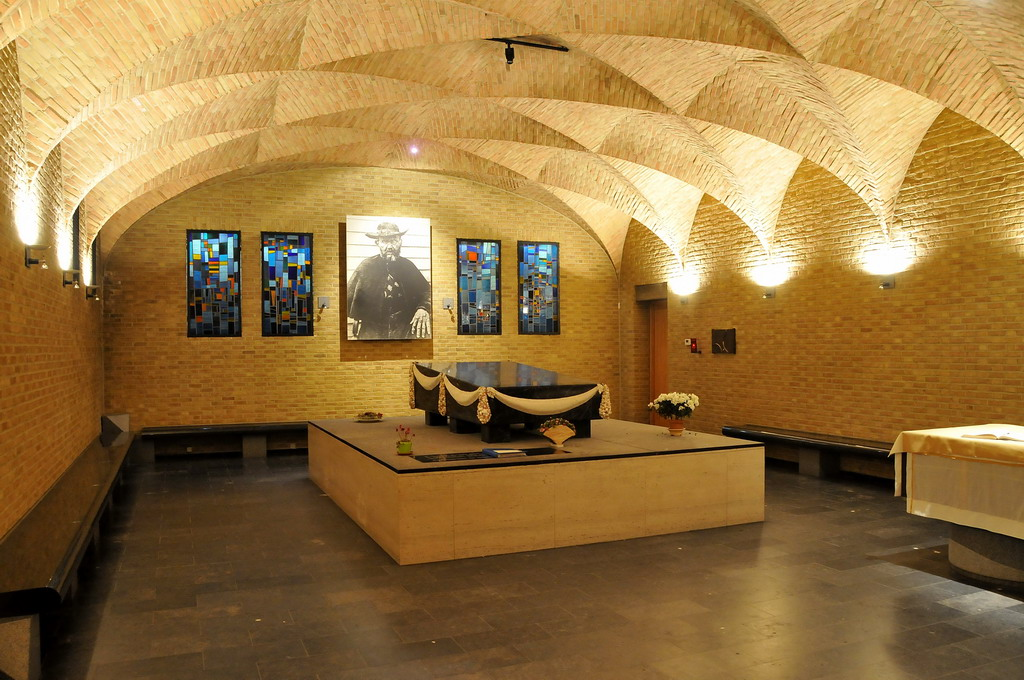 Sinds 1936 ligt pater Damiaan (1840-1889) begraven in de Sint Antoniuskapel in een crypte van bak- en zandsteen in laatgotische stijl. De crypte kwam tot stand bij de verbouwing van de kapel in 1960-1962, naar een ontwerp van architecten Jos Ritzen en Walter Steenhoudt. In 2009 werd Damiaan heilig verklaard. Father Damien died of leprosy 15 April 1889, aged 49. In January 1936, at the request of the Belgian government, Damien's body was returned to his native land. It was brought back aboard the Belgian sailing ship Mercator and now rests in Leuven, an historic university city close to the village where Damien was born. After his beatification in June 1995, the remains of his right hand were returned to Hawaii, and re-interred in his original grave on Molokai. Bron: Wikipedia.